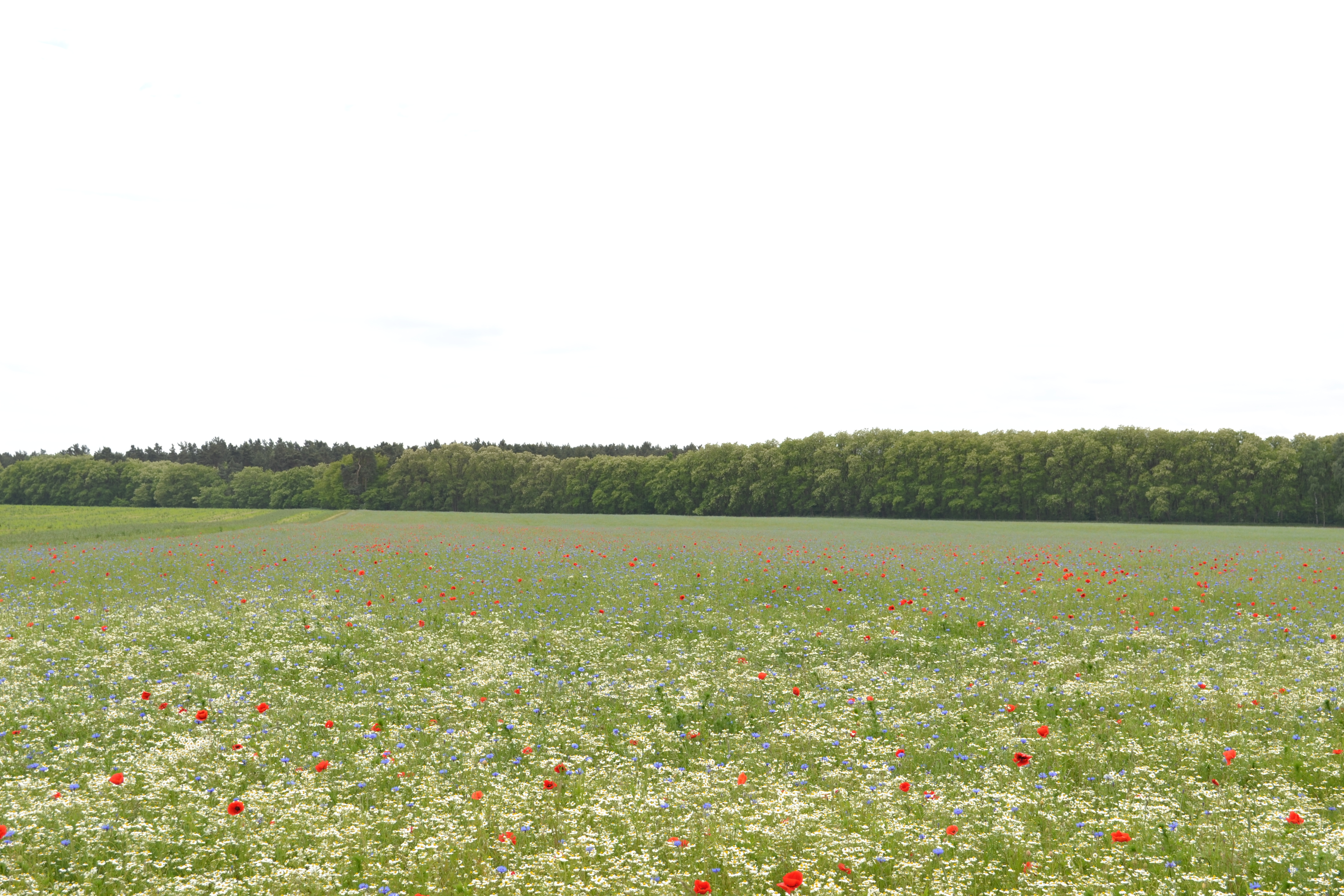 Fields with arable herbs like chamomille, cornflower and poppy in nature area Havelländisches Luch.